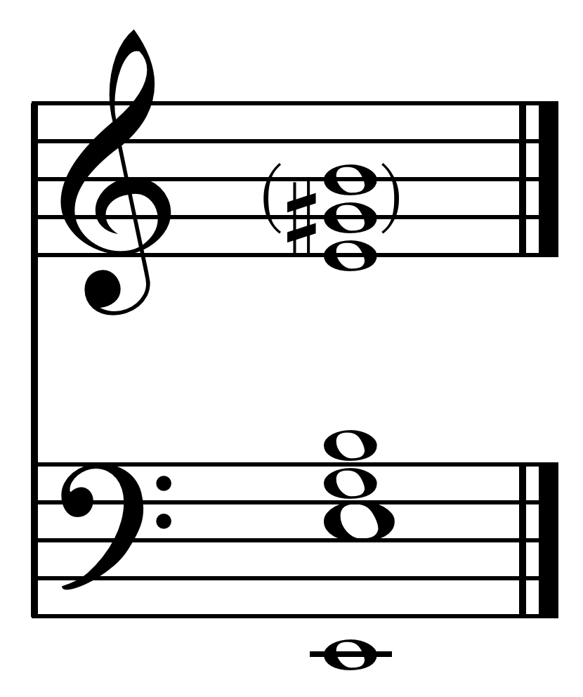 Erfurt Bell (1497), diameter: 8 feet 5 3/4 inches, weight: 13 tons 15 cwts., note: E.[1] Or any well-tuned bell.[2] Known as the "Maria Gloriosa" it was cast by Geert van Wou.